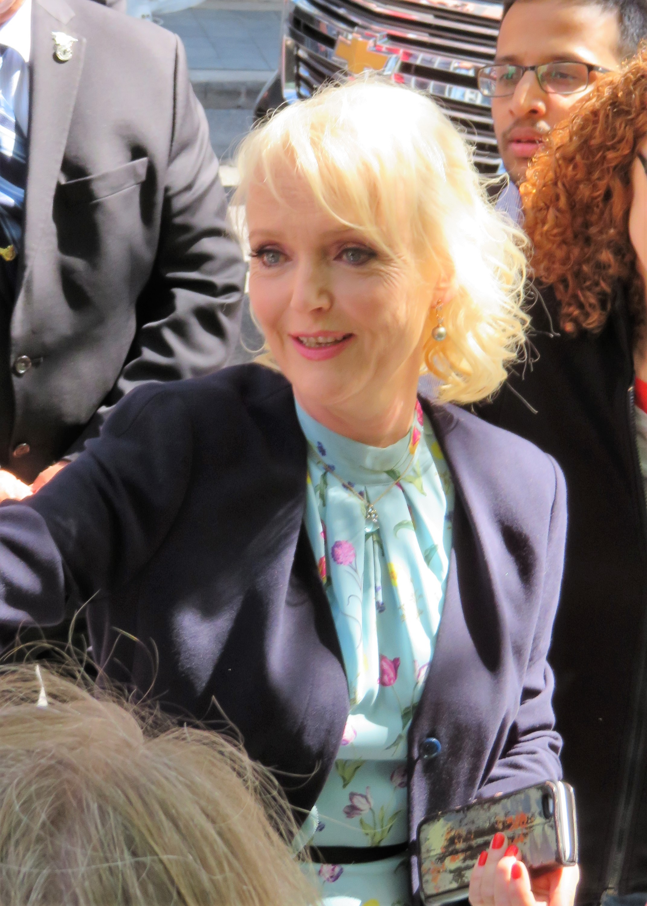 Miranda Richardson at the press conference of Stronger, 2017 Toronto Film Festival